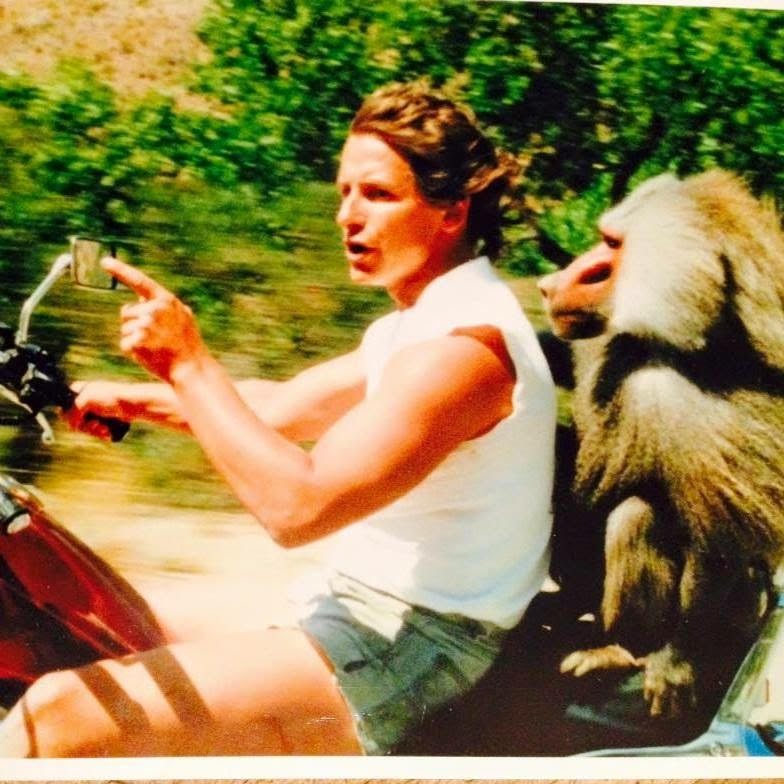 Typhoon the trained baboon with his trainer Gerry Therrien on a motorcycle.